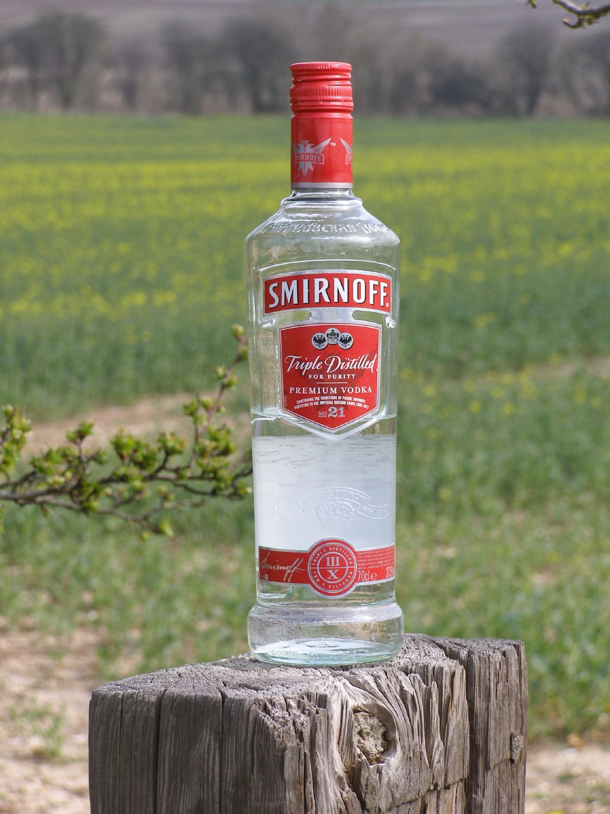 Found this Smirnoff vodka bottle on a old weathered gatepost to a field outside of Avebury.